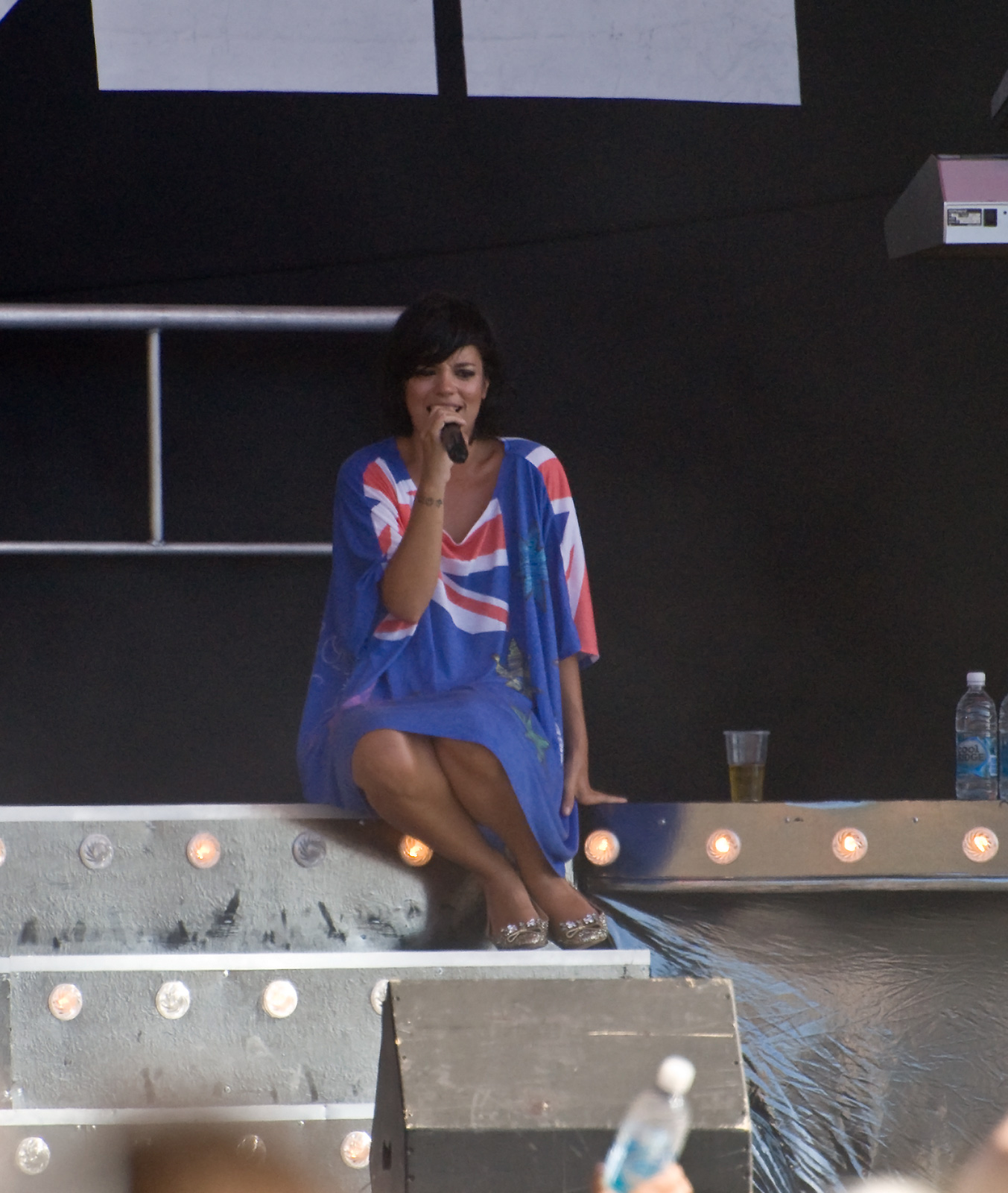 Lily Allen singing at Big Day Out 2010 on Australia Day